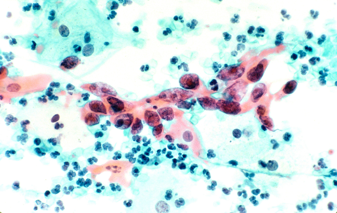 Title: Pathology: Histology: Cervical Cancer Description: Histological section showing cervical cancer specifically squamous cell carcinoma in the cervix. Tissue is stained with pap stain and magnified x200. Subjects (names): Topics/Categories: Pathology -- Histology Type: Color Slide Source: National Cancer Institute Author: Unknown photographer AV Number: AV-9303-4404 Date Created: March 1993 Date Entered: 1/1/2001 Access: Public